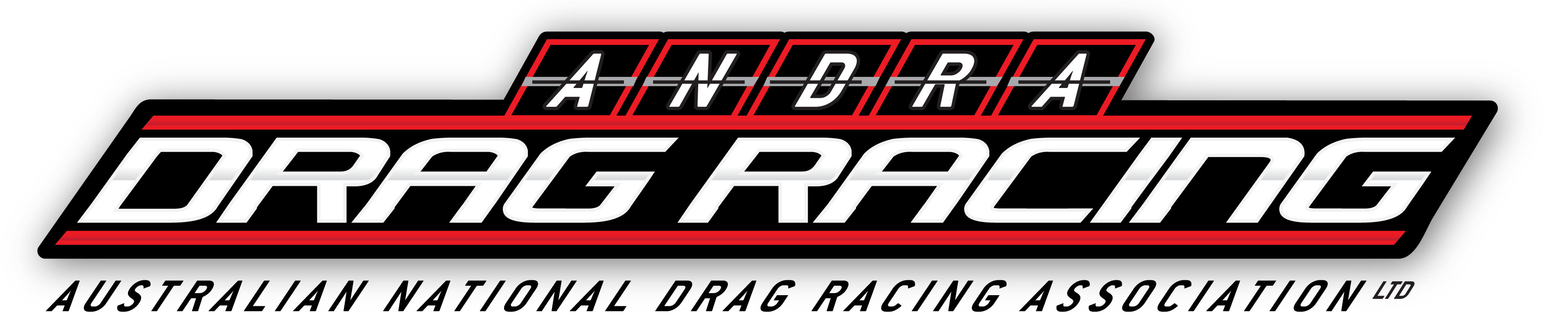 ANDRA Logo